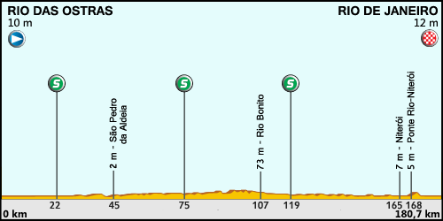 Profile of the 5th stage of the 2013 Tour do Rio